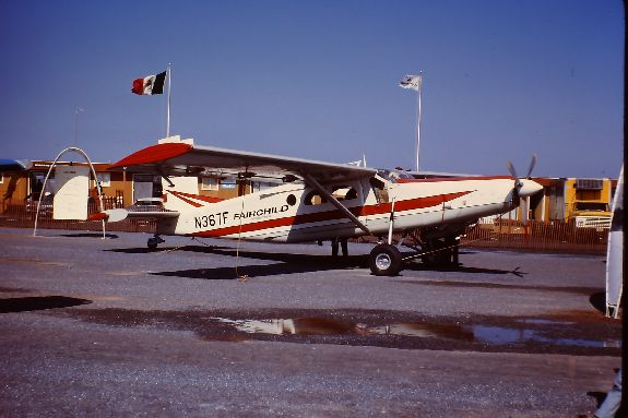 Manufacturer: Fairchild Hiller Corp. Designation: PC-6/C-H2 Turbo-Porter Serial Number:2024 (1967) Immatriculation: N367F